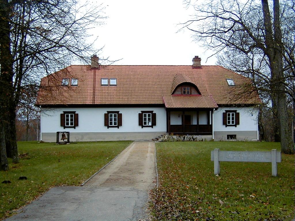 Folwark Birķenele - museum of Rainis